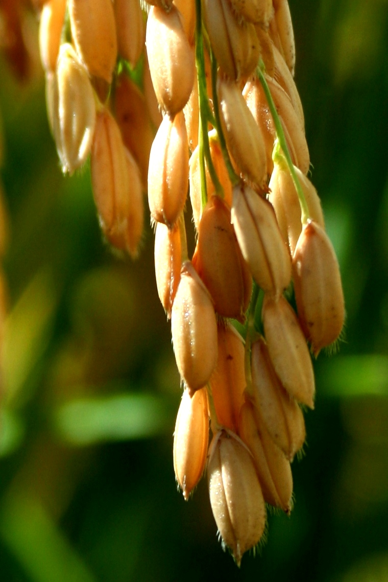 FDA Commissioner Margaret A. Hamburg and colleagues visited research facilities and rice farms in California on Sept. 4-5, 2013 in an effort to gain a greater understanding of the presence of arsenic in rice. Shown is a close-up in the rice field at the Lyle Job farm in Richvale, Calif. For more information, read the FDA Voice blog: • On Farms and in Labs, FDA and Partners Are Working to Get Answers on Arsenic in Rice FDA photo by Erica Pomeroy